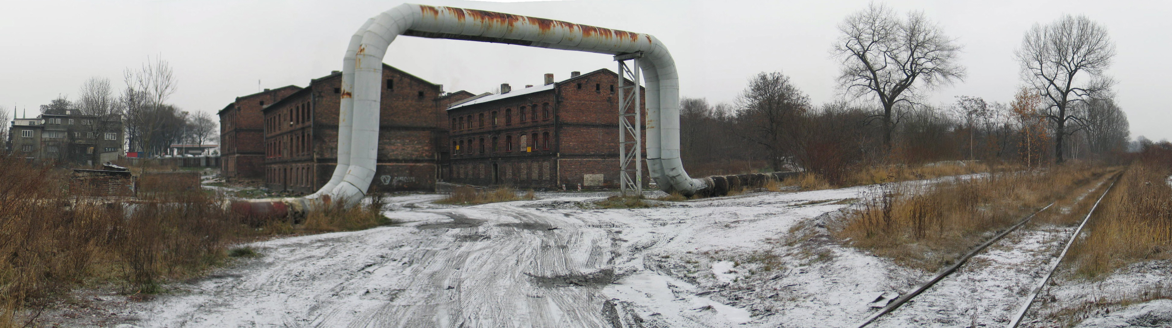 Zabrze - Zaborze, place called Janoschland, famous Piekarska street (non existing today), settlement were novelist Janosch was born and raised